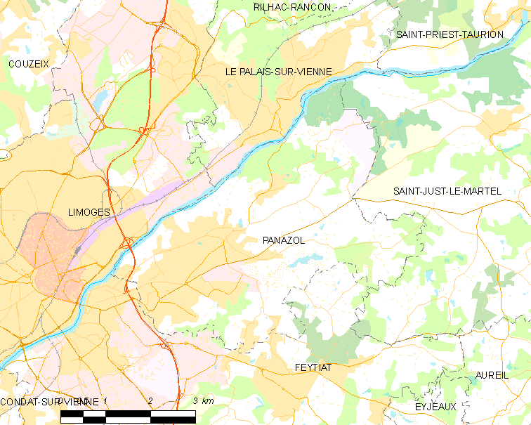 Map of French municipality Panazol